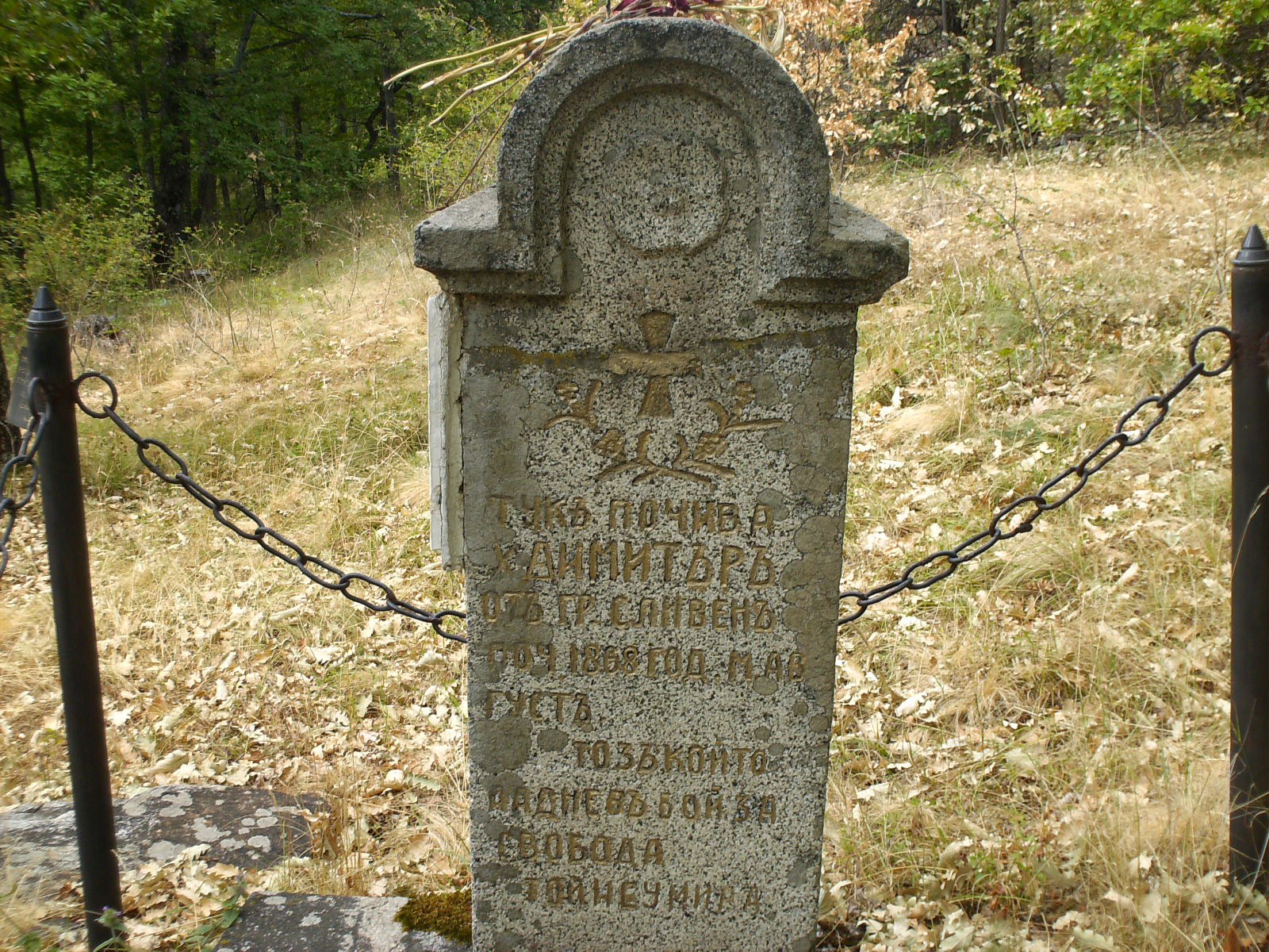 A frontal view from the only known grave of the Bulgarian national hero Hadji Dimiter Asenov.The location of the grave is beneath mount Kadrafil, Sredna gora, Bulgaria.